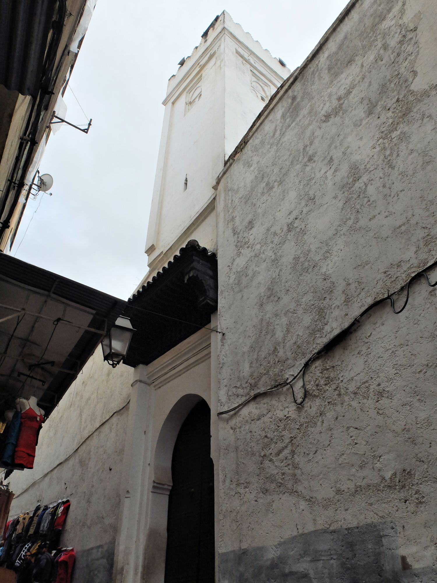 Entrance and minaret of the el-Oued Mosque, in the Andalous quarter, Fes. The mosque dates from the reign of Moulay Slimane, and replaces an earlier Madrasa al-Oued which stood here.